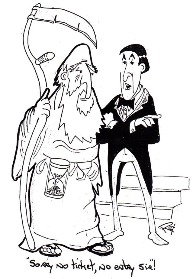 A cartoon by Australian cartoonist Rex Barber, drawn for the 1993 New Years Ball for the Australian Embassy in Vietnam.